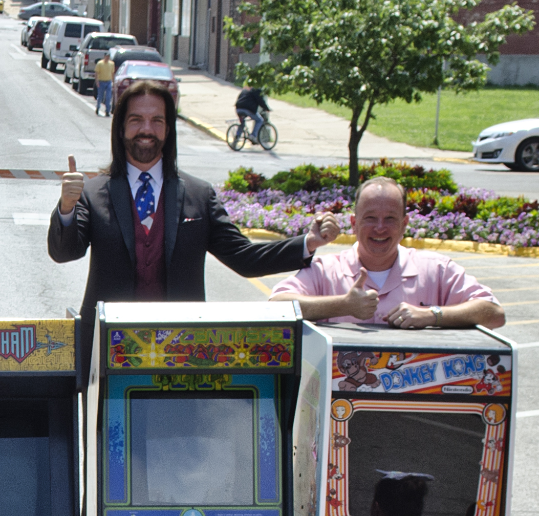 Billy Mitchell joking around with his friend Steve Sanders during the Life Magazine reunion photoshoot, Ottumwa 2014